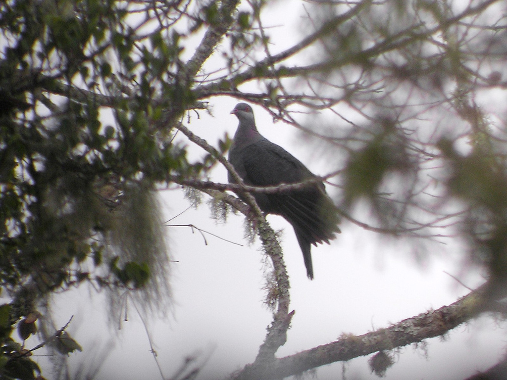 Columba vitiensis — Metallic Pigeon. Mount Kitanglad, Mindanao, the Philippines.